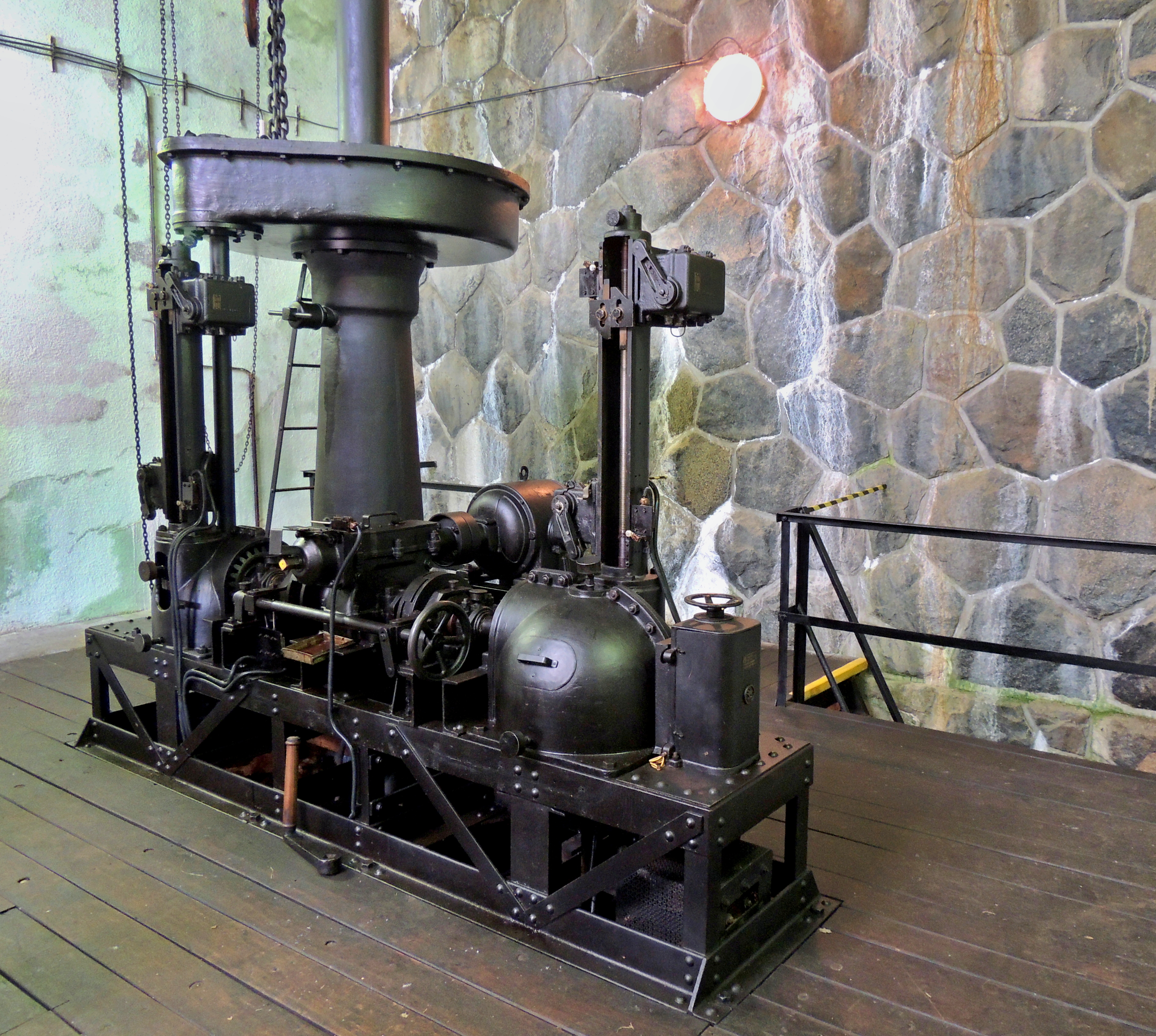 Sečská dam. Machine controlling the shut-off valve of the water reservoir outlet. Made in joint stock company Škoda, Plzeň. Photo – one of the electromotors in the engine room under the dam Seč. Photo location: Czech Republic, Pardubice Region, town Seč, Seč Dam, "Kameničská" highlands.